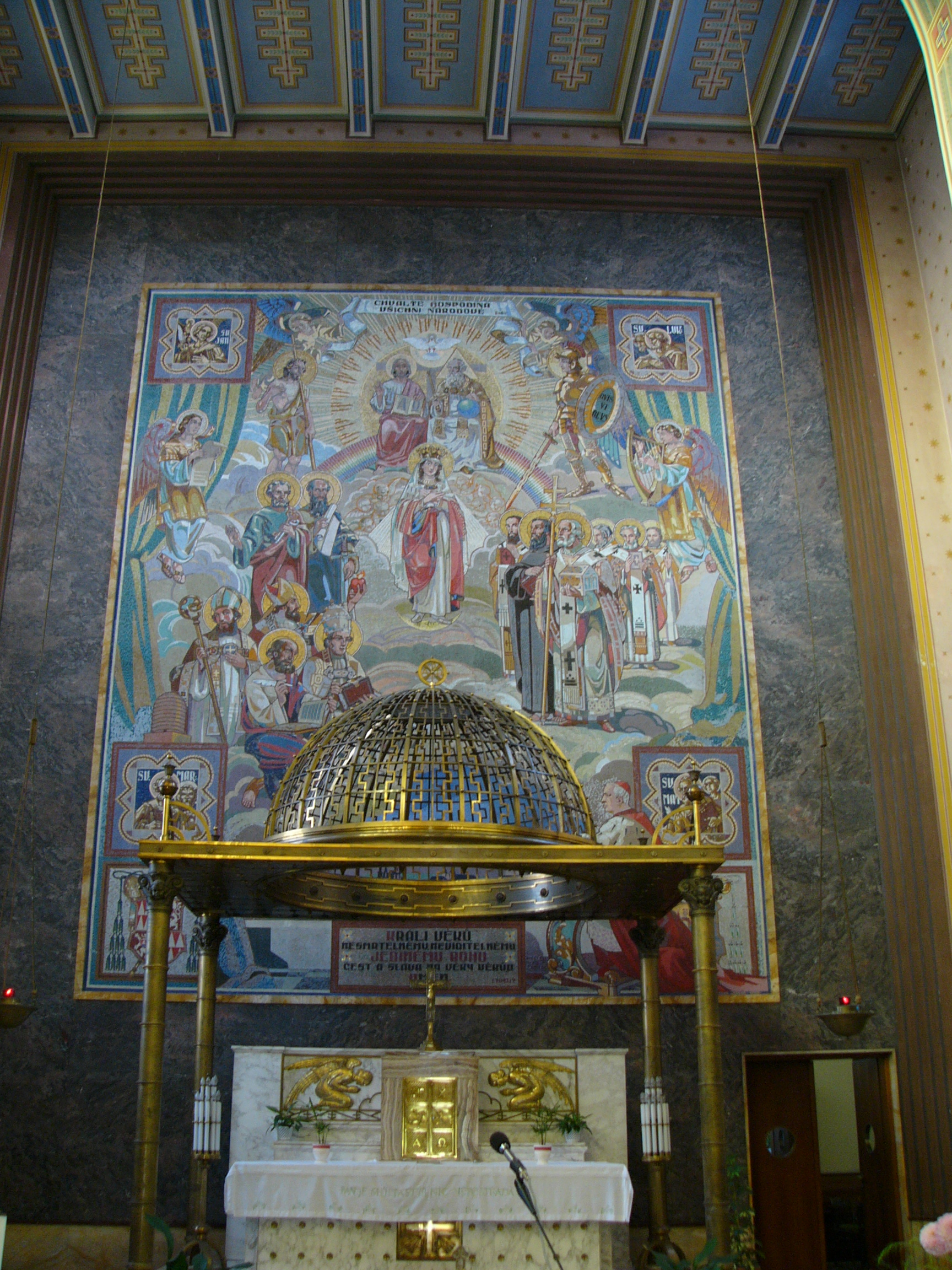 High altar in Sts. Cyril and Methodius's church in Olomouc (Czech Republic). Proposal of mosaic: Jano Köhler. Marble: sculptor Julius Pelikán. Brass work: Franta Anýž.